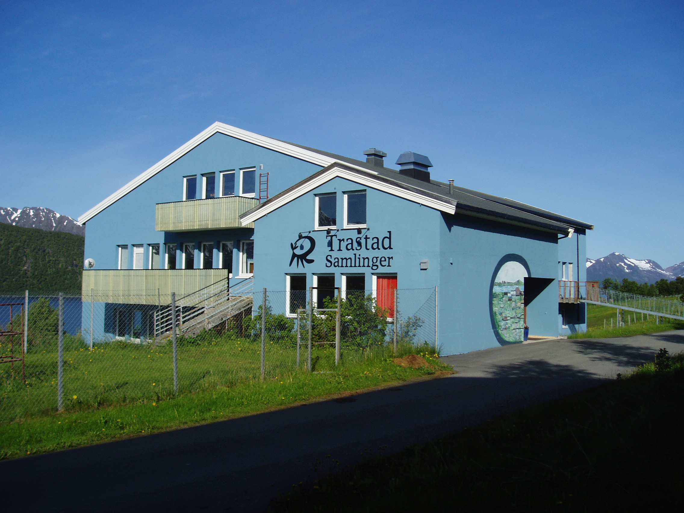 The museum Trastad Samlinger, which displays art made of mentally handicapped, and the history of Trastad Gård, an institution for mentally handicapped.